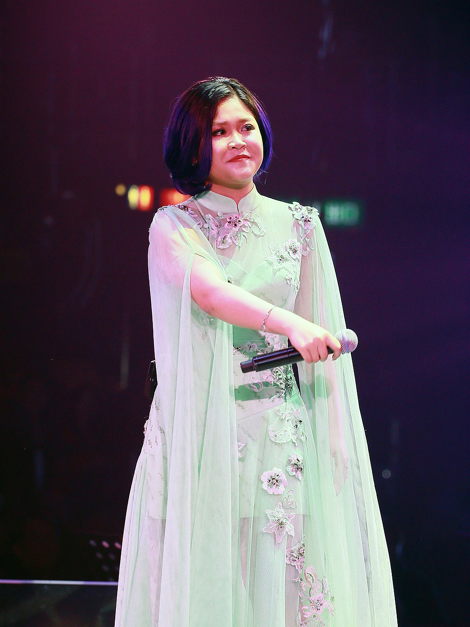 Vanatsaya Viseskul, Thai singer Chinese descent in her second solo concert held at Queen Elizabeth Stadium in Wan Chai, Hong Kong on late of February 2018.